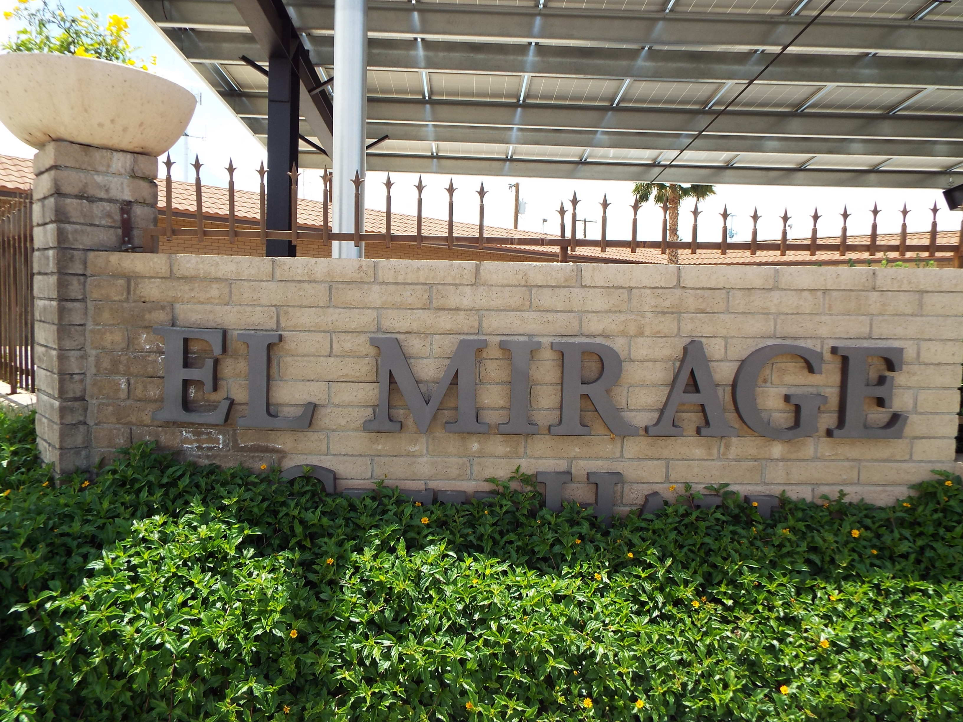 El Mirage sign in front of El Mirage City Hall located at 12145 NW Grand Ave.